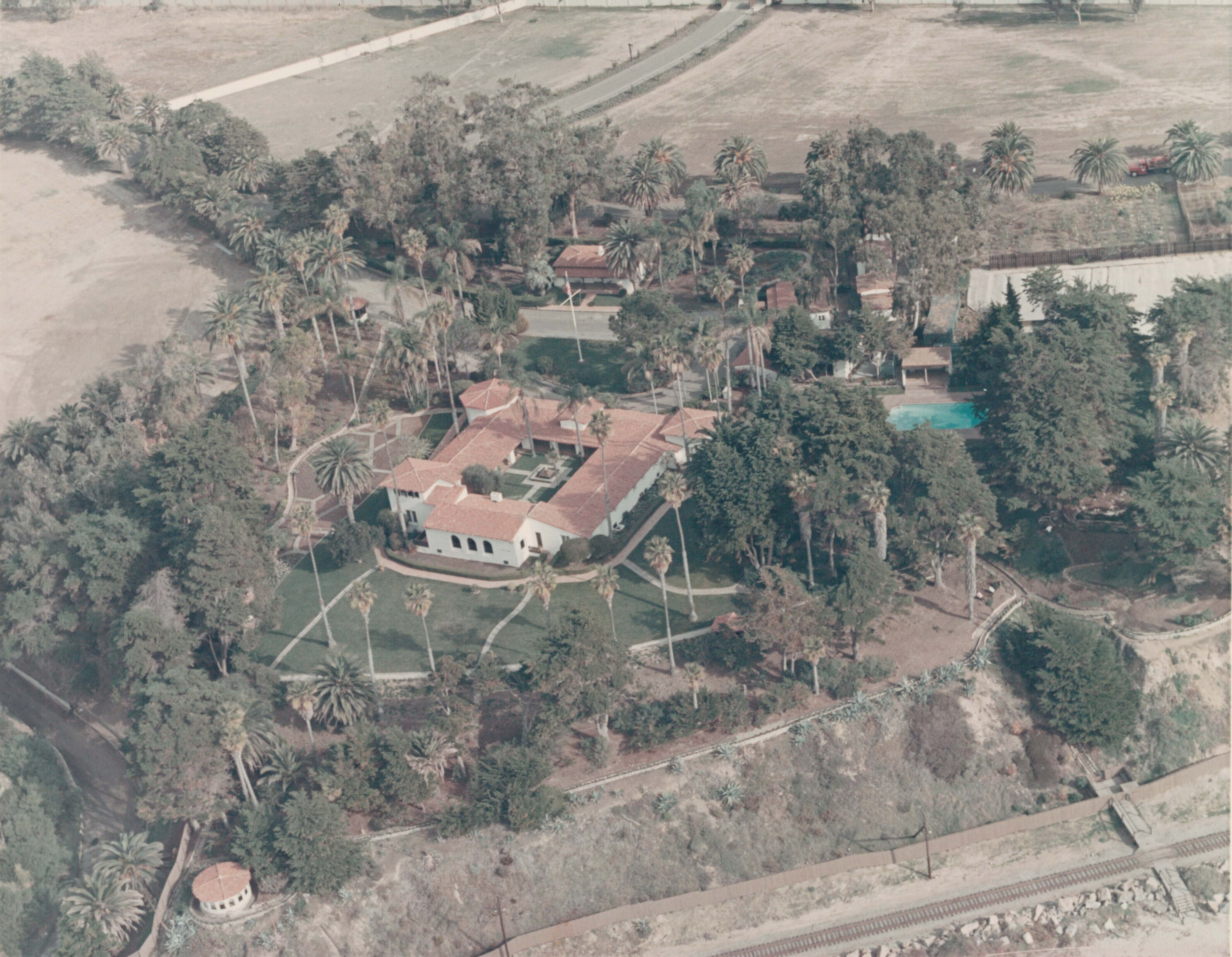 Overhead shot of President Nixon's Casa Pacifica